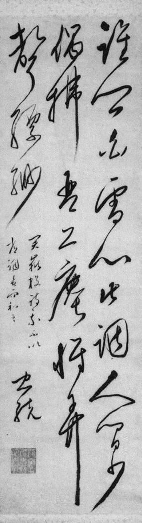 Calligraphy by Honda Tadamune 5言絶句 本多忠統書